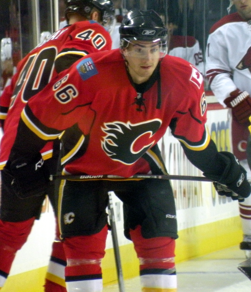 Calgary Flames defenceman T. J. Brodie prior to a National Hockey League exhibition game against the Phoenix Coyotes.